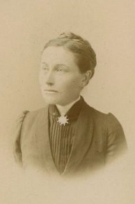 Teréz Egenhoffer mid-age